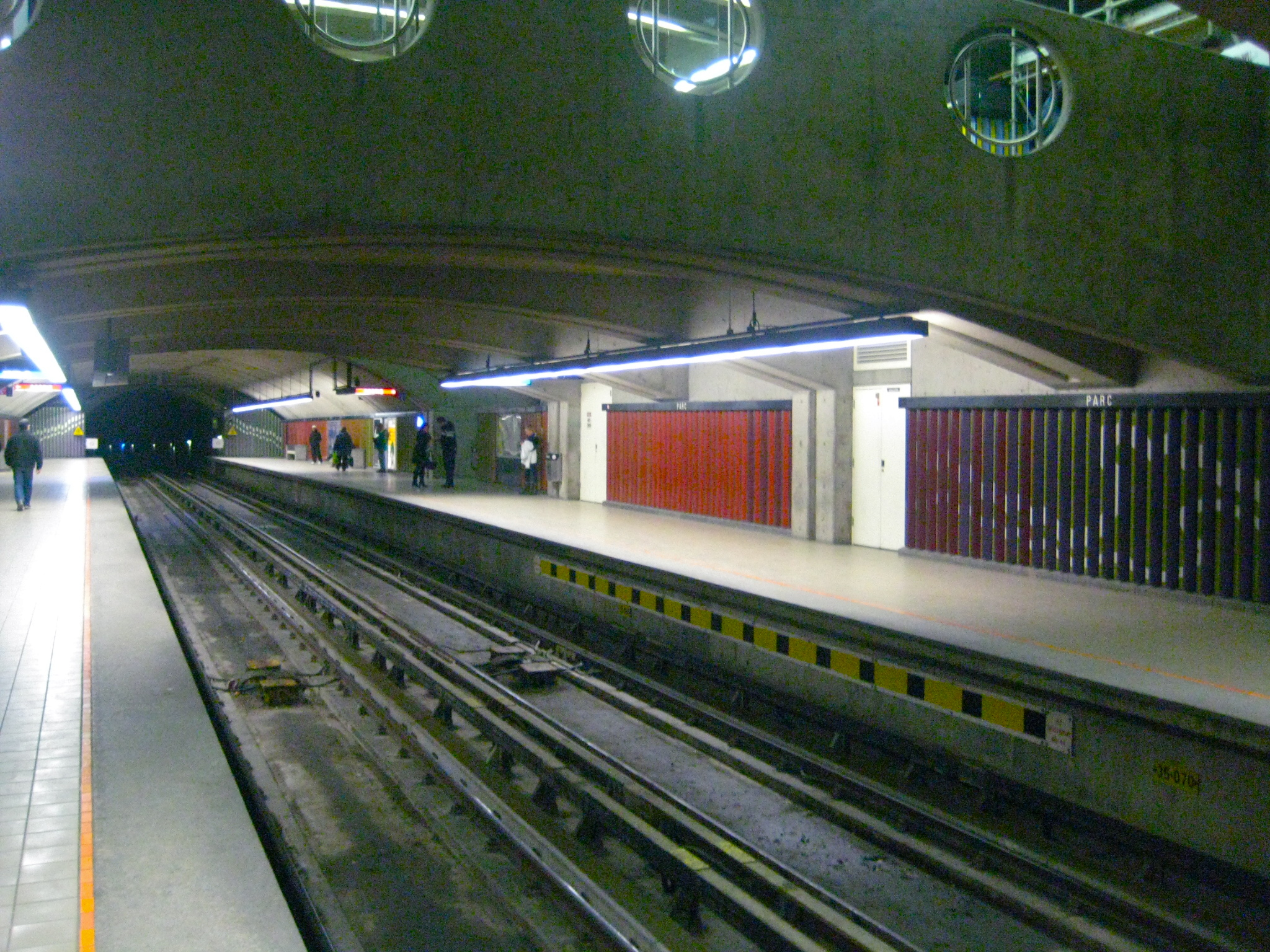 Parc Metro station platform